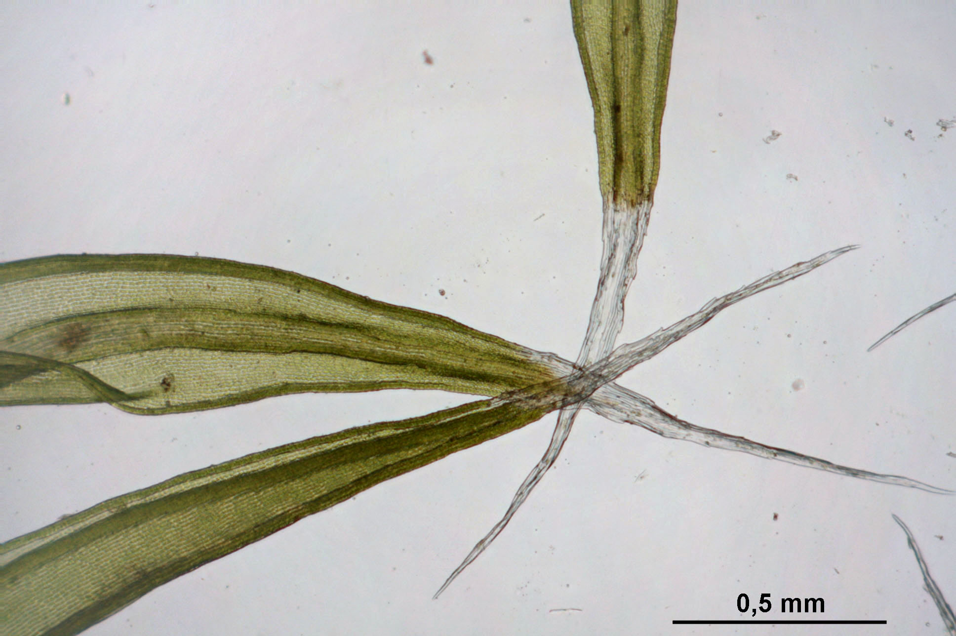 Bucklandiella heterosticha, Racomitrium heterostichum